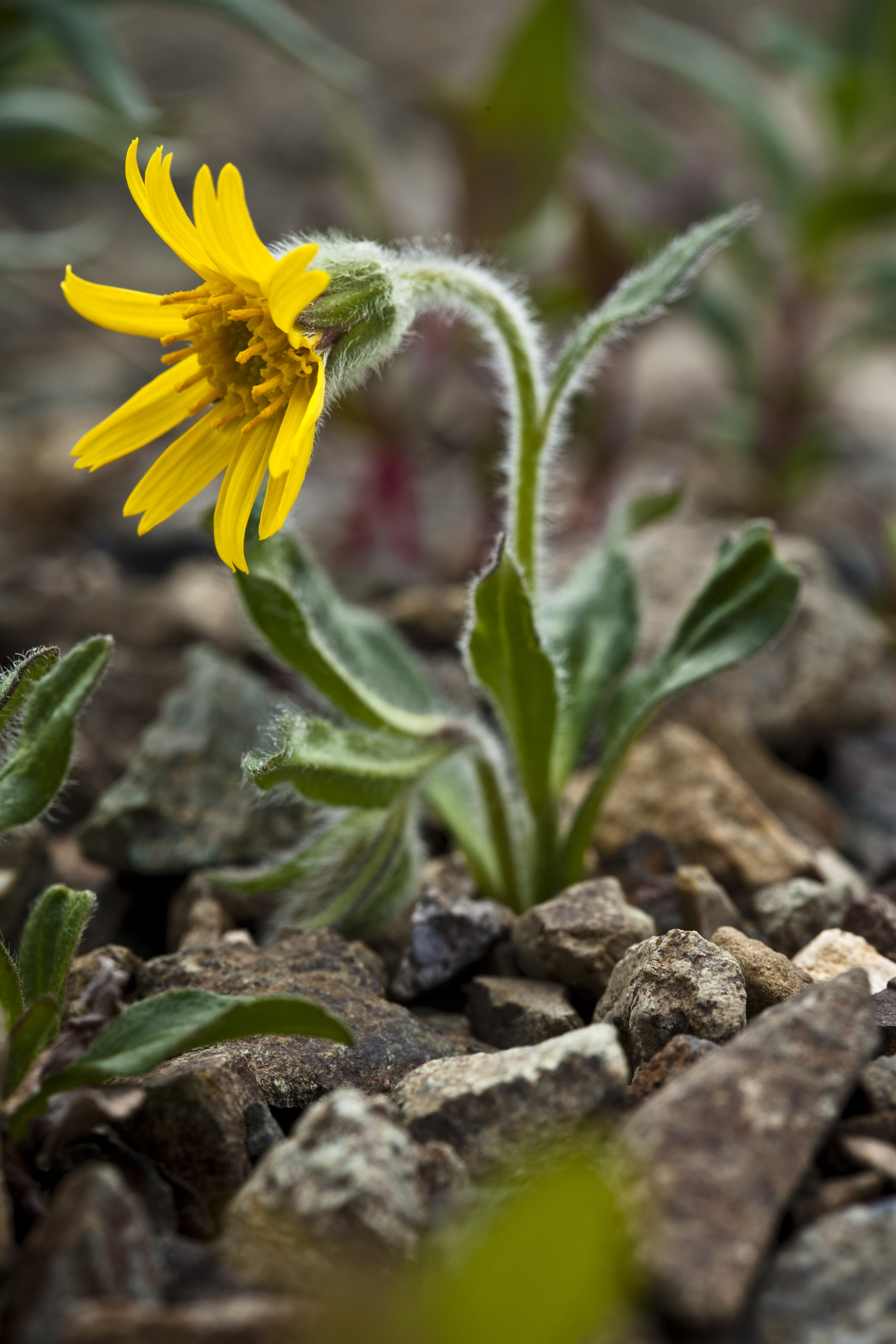 Arnica lessingii, Denali National Park and Preserve, AK, USA